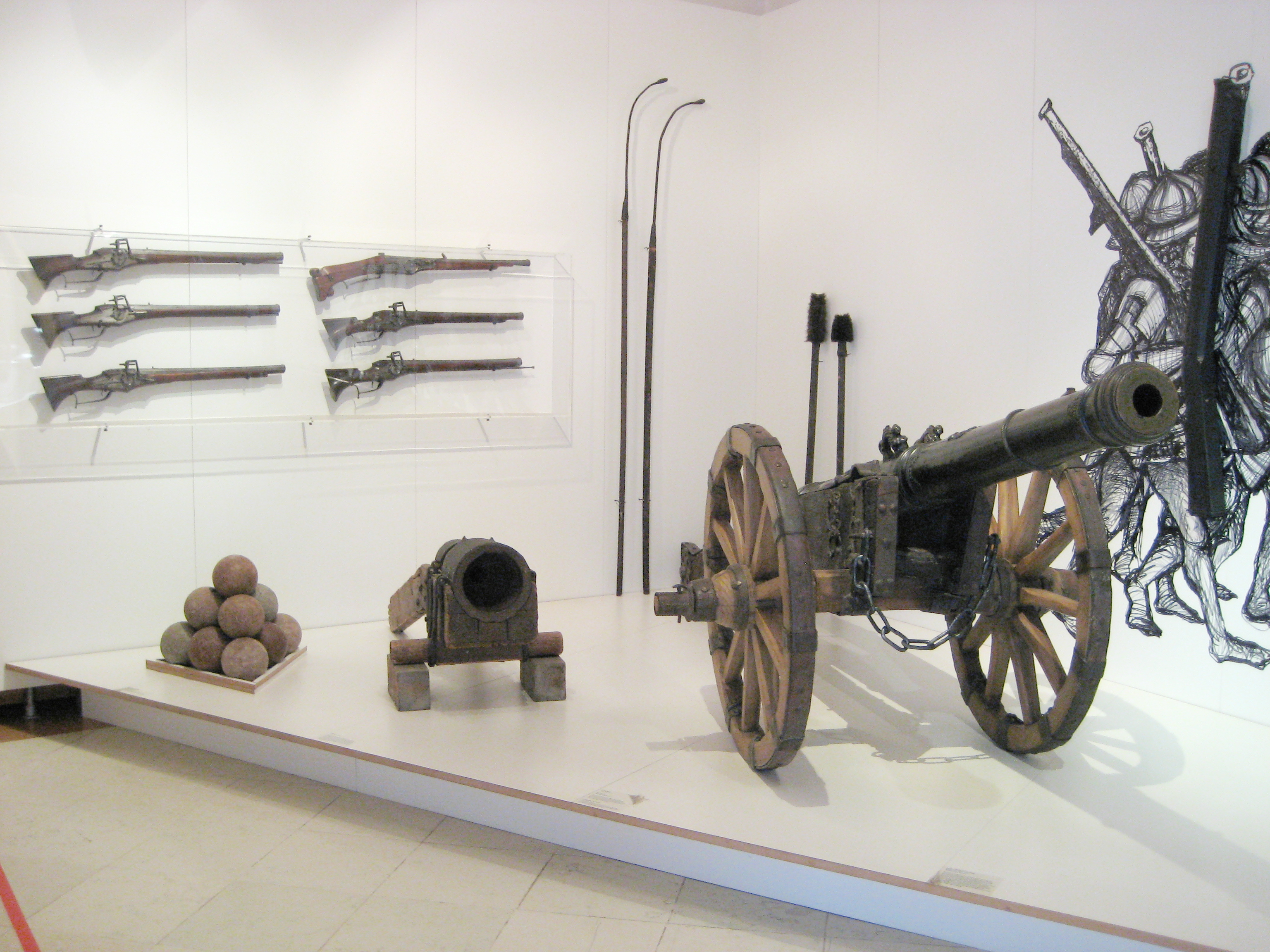 Museum in Veste Oberhaus, Passau